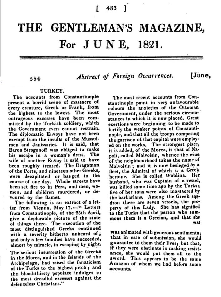 Article in the "Gentleman's Magazine", London, June 1821 with news from the Greek Revolution of 1821.